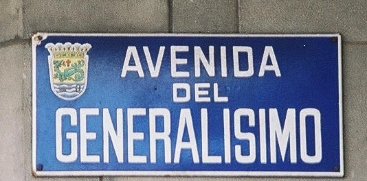 Transferred from fr.wikipedia to Commons. The original description page was here. All following user names refer to fr.wikipedia. Avenida del Generalísimo de Puerto de la Cruz, en Tenerife.